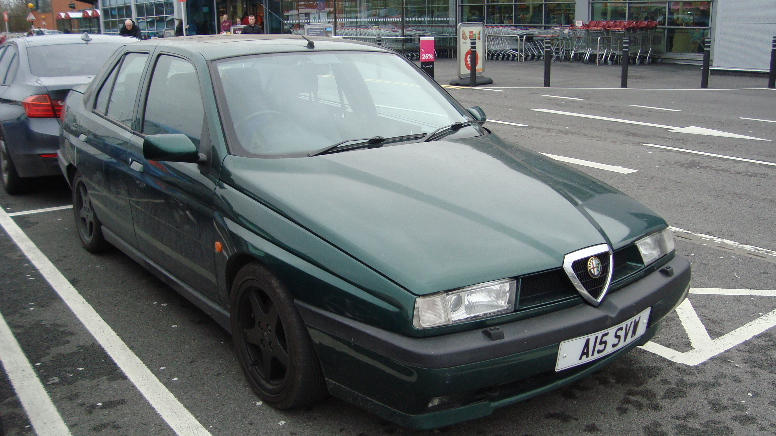 Not seen one of these in a while which is a shame because they're handsome cars